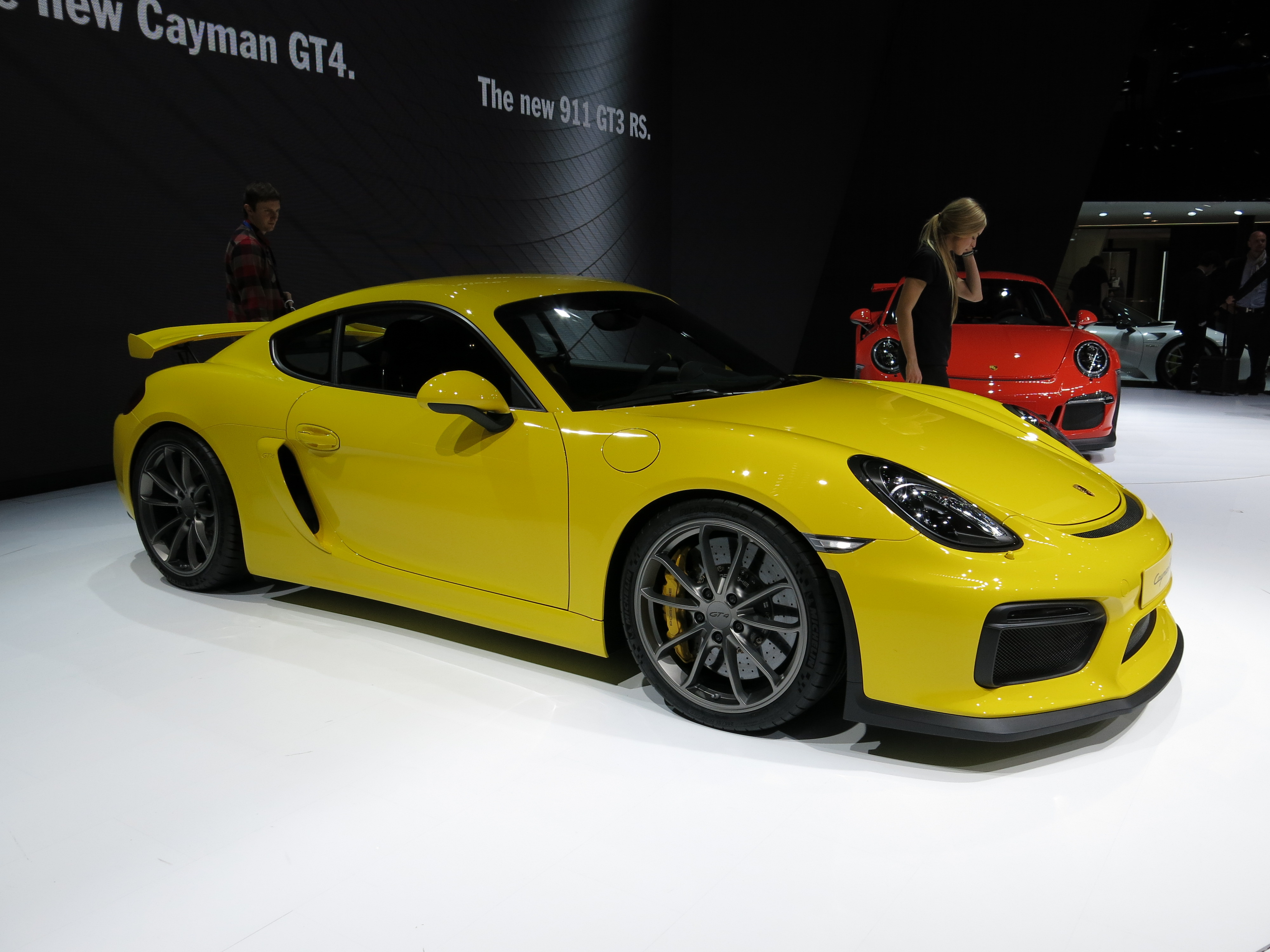 Geneva Motor Show 2015 (photo taken on the first press day)